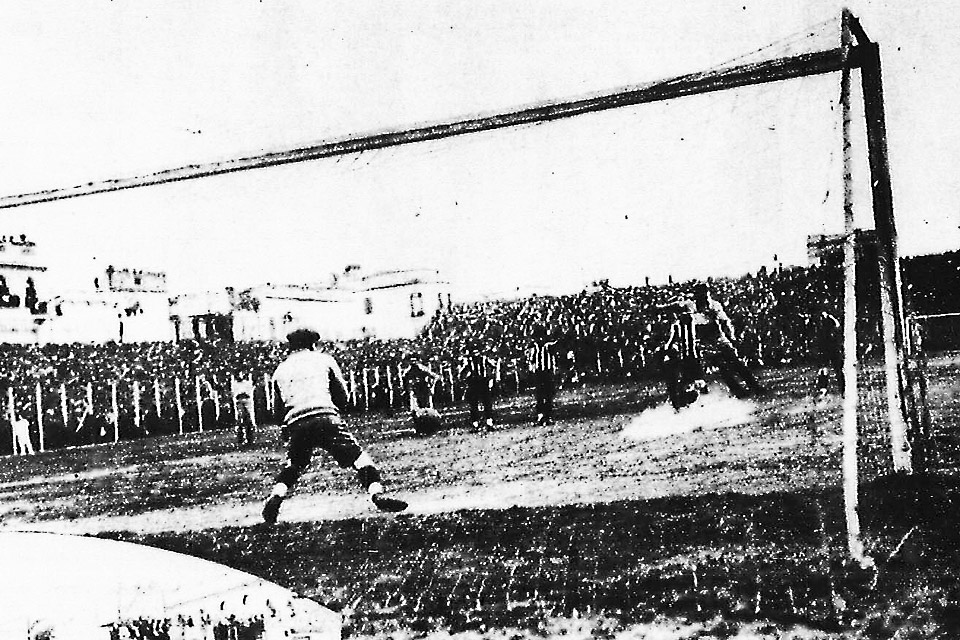 Francisco Varallo takes a penalty against River Plate; River goalkeeper Jorge Iribarren will save it, but Varallo will score after the rebound. The match ended 1-1.